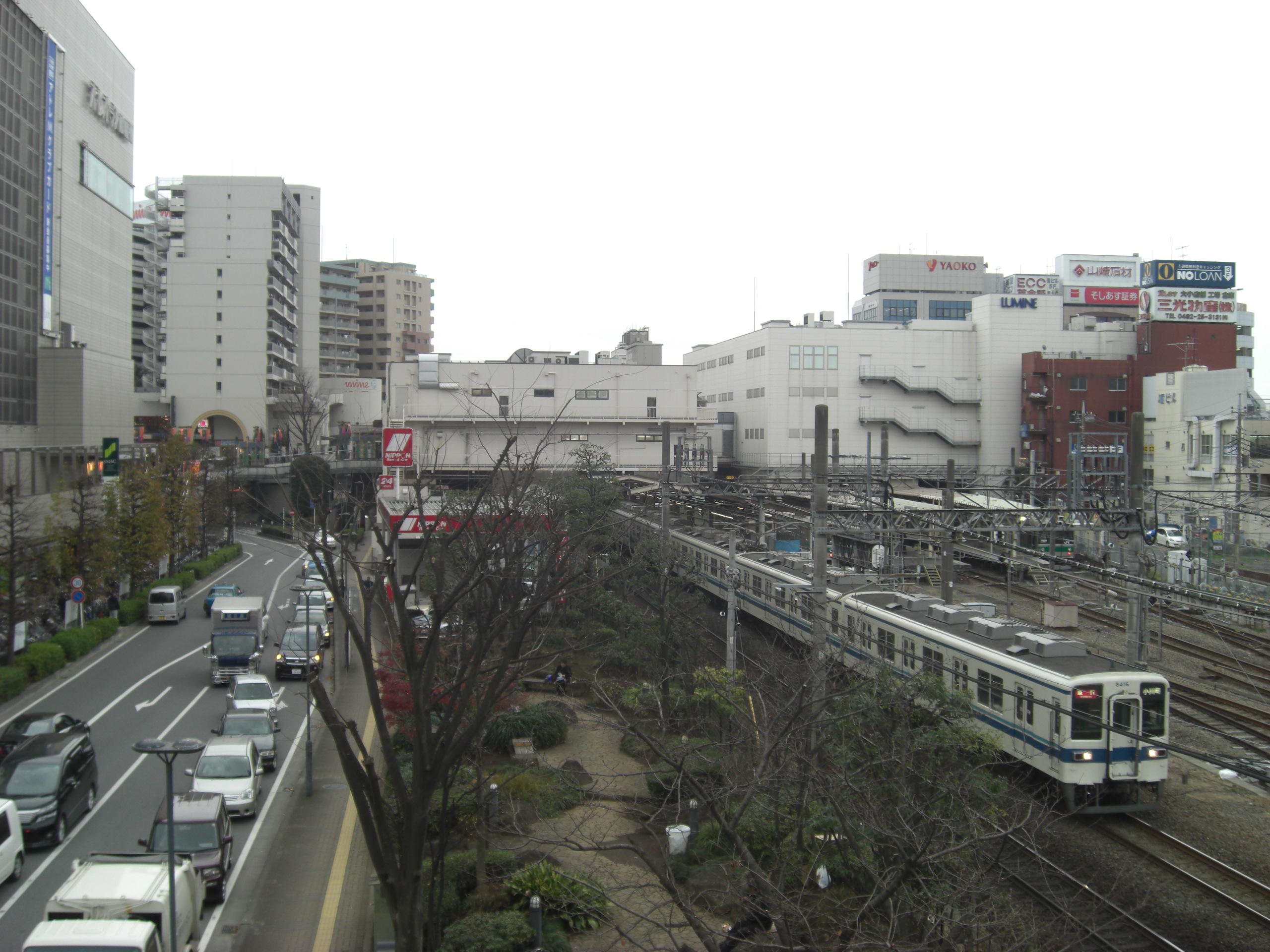 Kawagoe Station